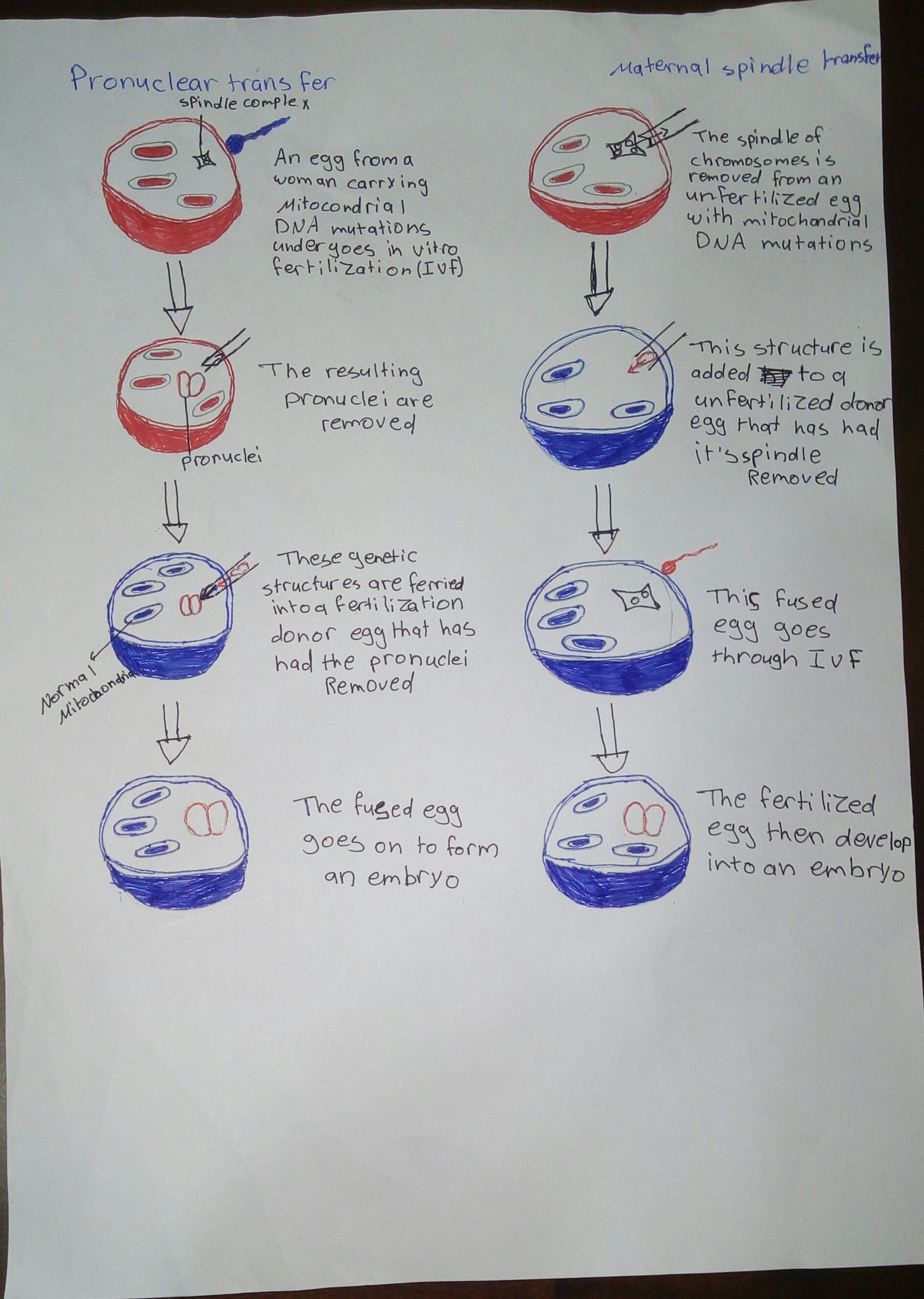 تقنيتان مختلفتان يمكن استخدامهما لمنع الاطفال من وراثه امهاتهم" استبدال "الميتوكندريا